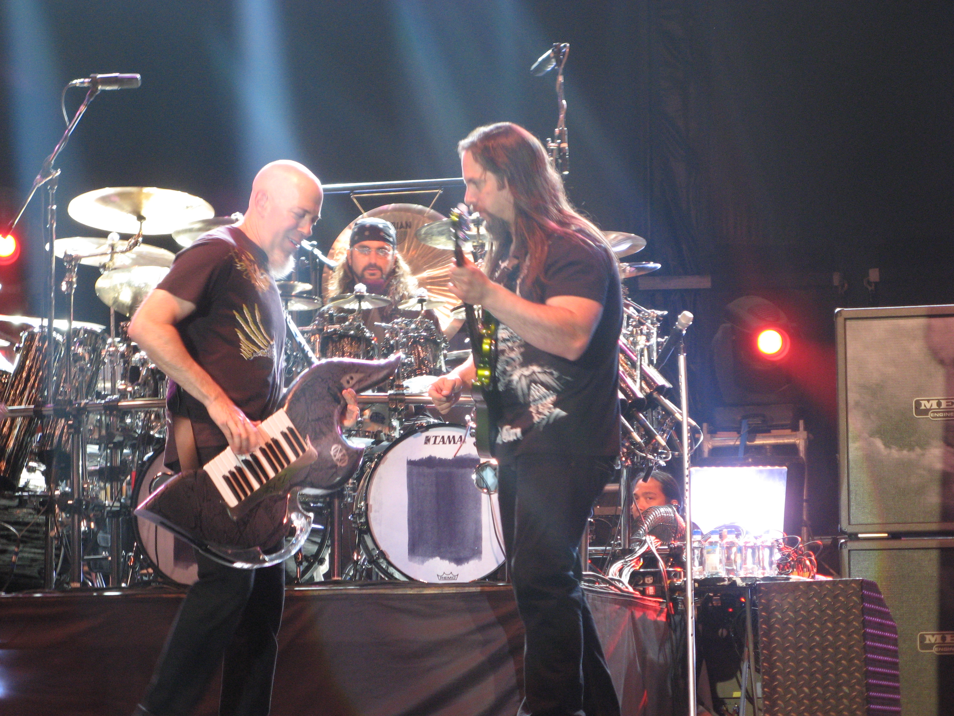 Keyboardist Jordan Rudess and guitarist John Petrucci performing at a Dream Theater concert. Drummer Mike Portnoy looks on.